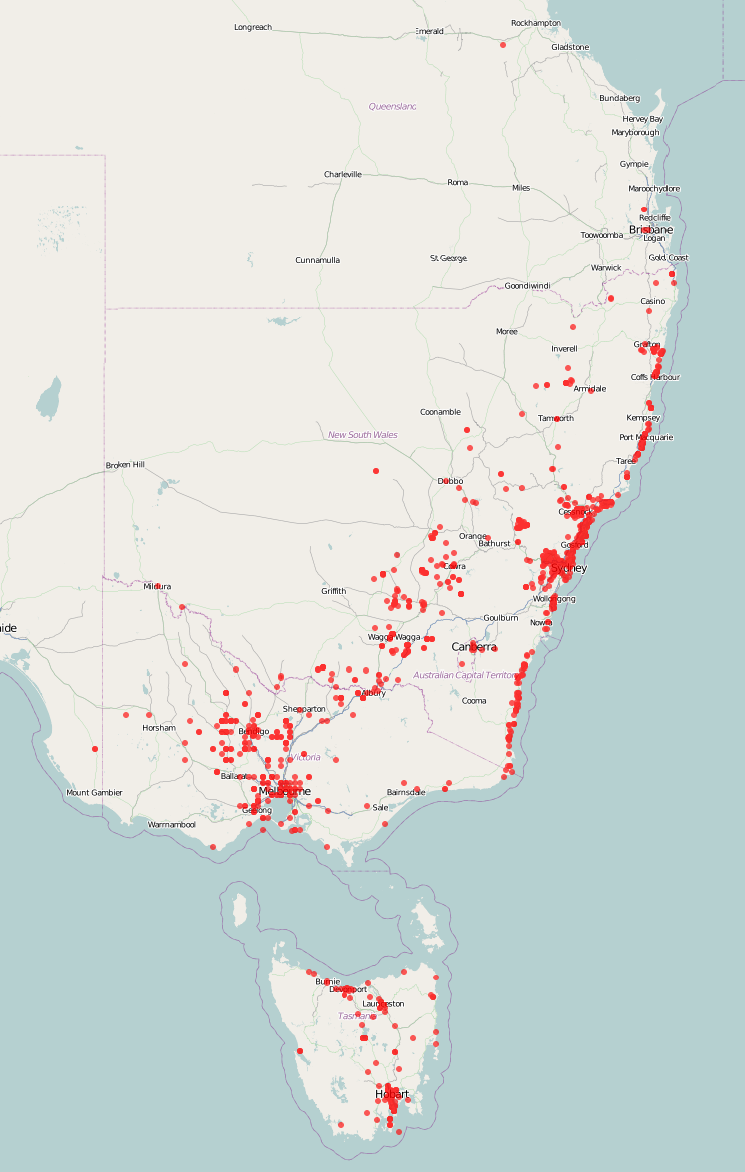 Info from the Atlas of Living Australia, Data from: Birdata DECCW Atlas of NSW Wildlife Eremaea Australian National Wildlife Collection provider for OZCAM Tasmanian Museum and Art Gallery provider for OZCAM Museum Victoria provider for OZCAM Queen Victoria Museum Art Gallery provider for OZCAM Australian Museum provider for OZCAM Western Australian Museum provider for OZCAM EOL Flickr Group